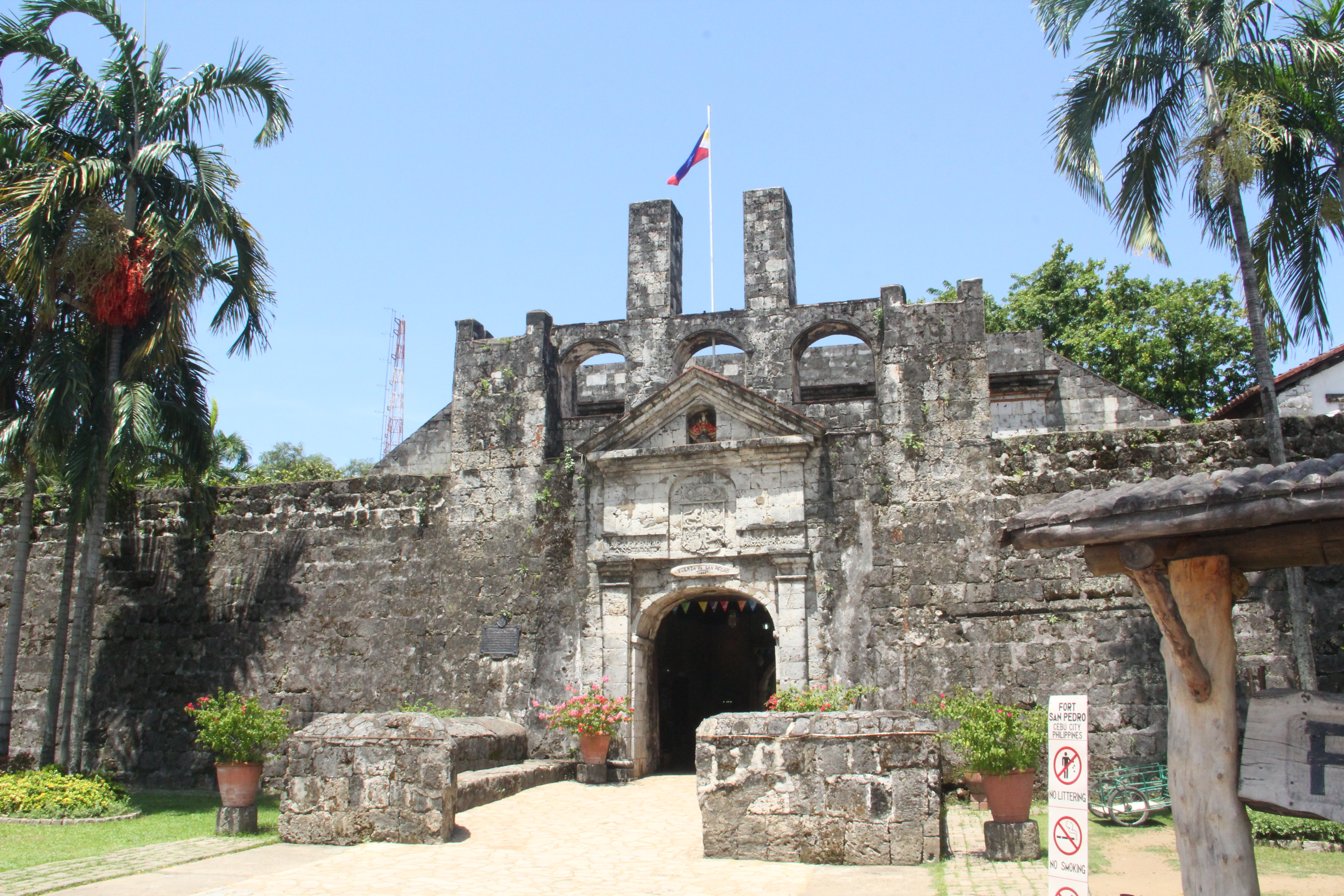 A military defence structure, built by Spanish and indigenous Cebuano laborers located in the area now called Plaza Indepedencia, in the Pier Area of Cebu City, Philippines.